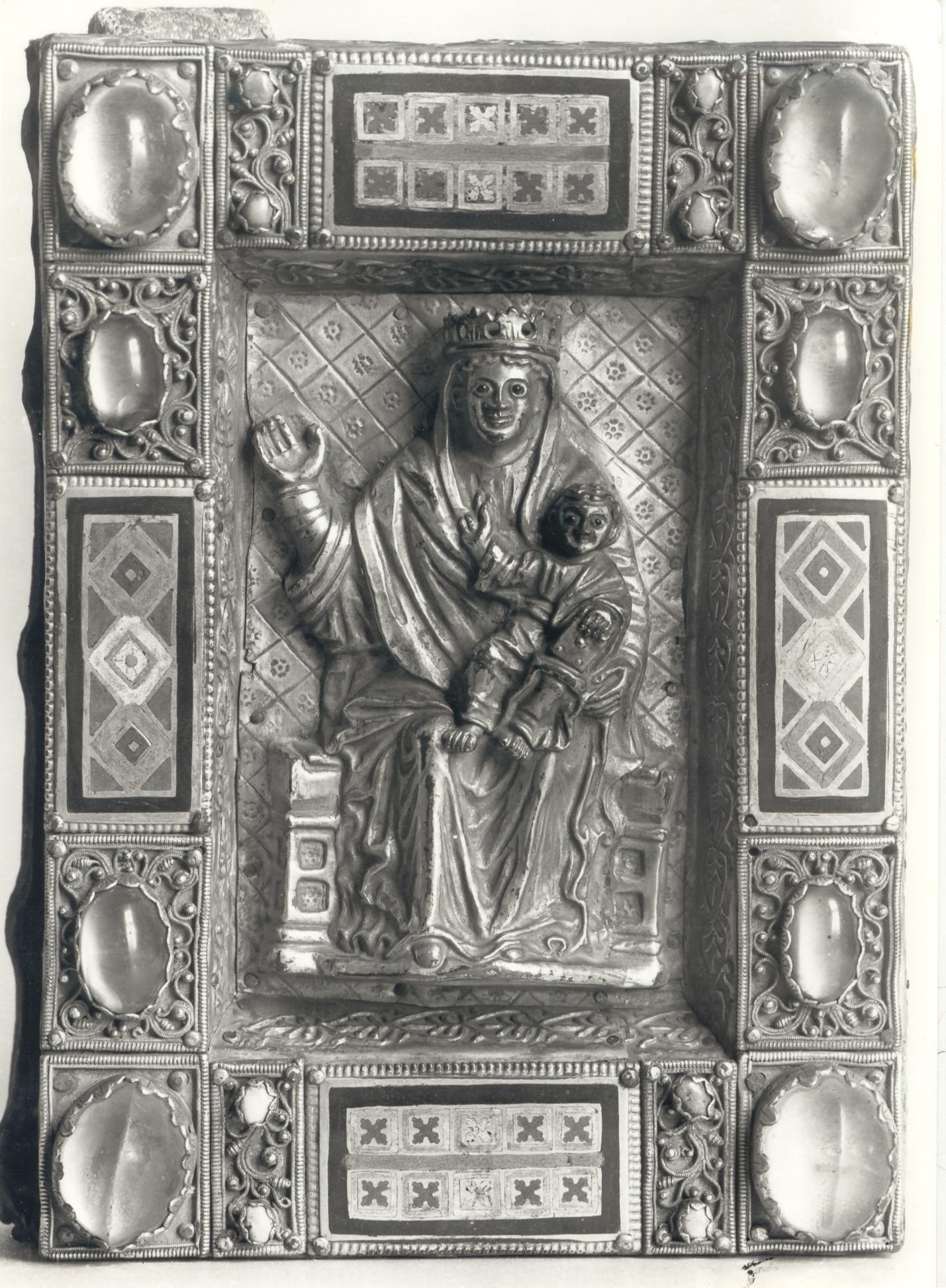 Cover of a Psalter (repoussé and gilded).